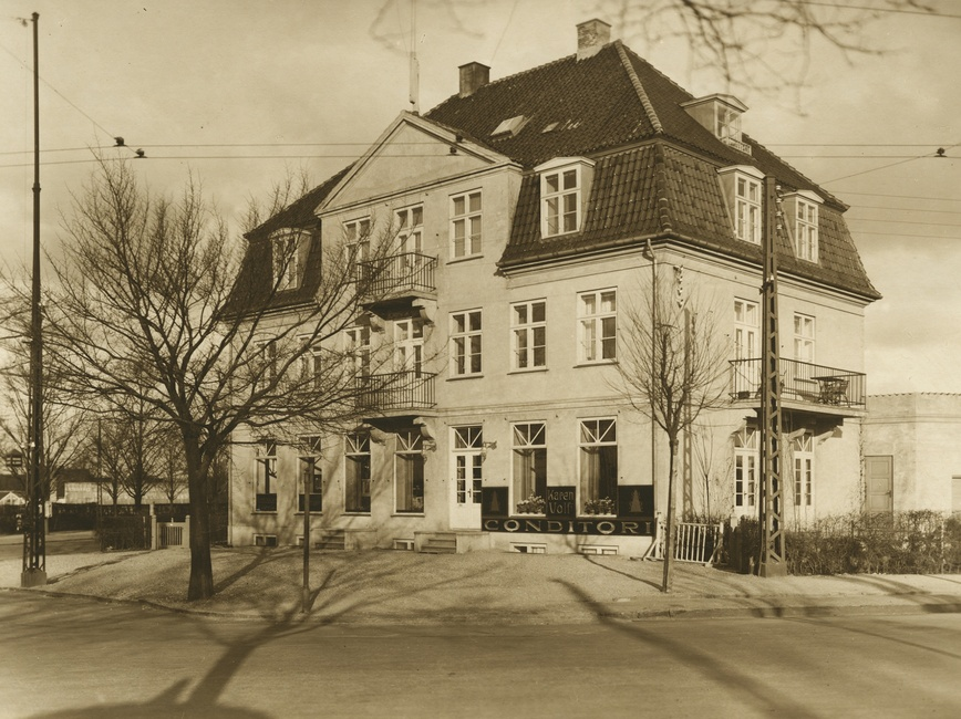 The Karen Volf bakery at Kildegårdsvej 44, Gentofte.